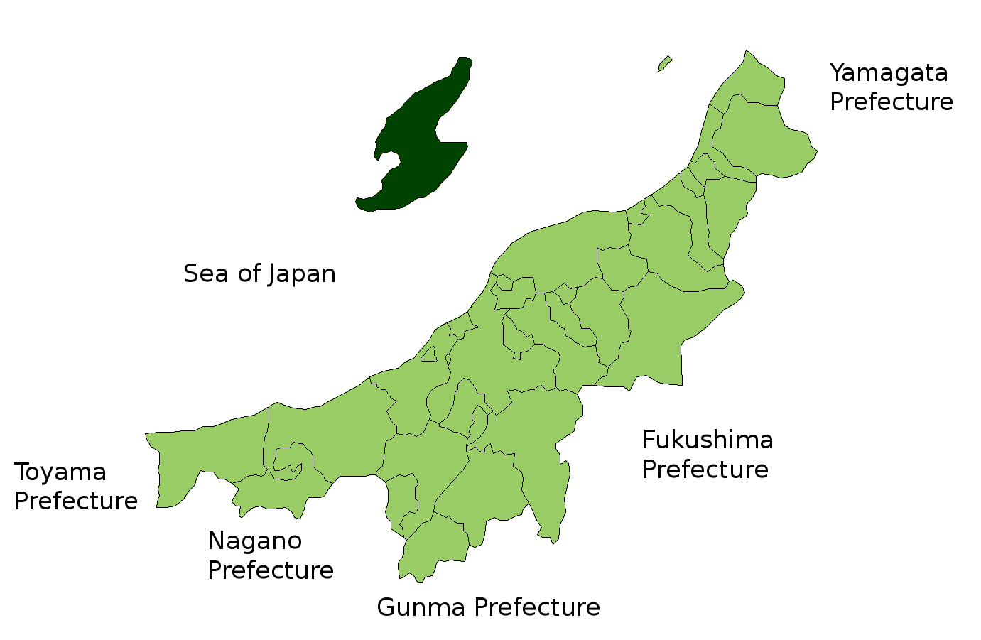 Location Map of Sado in Niigata Prefecture, Japan